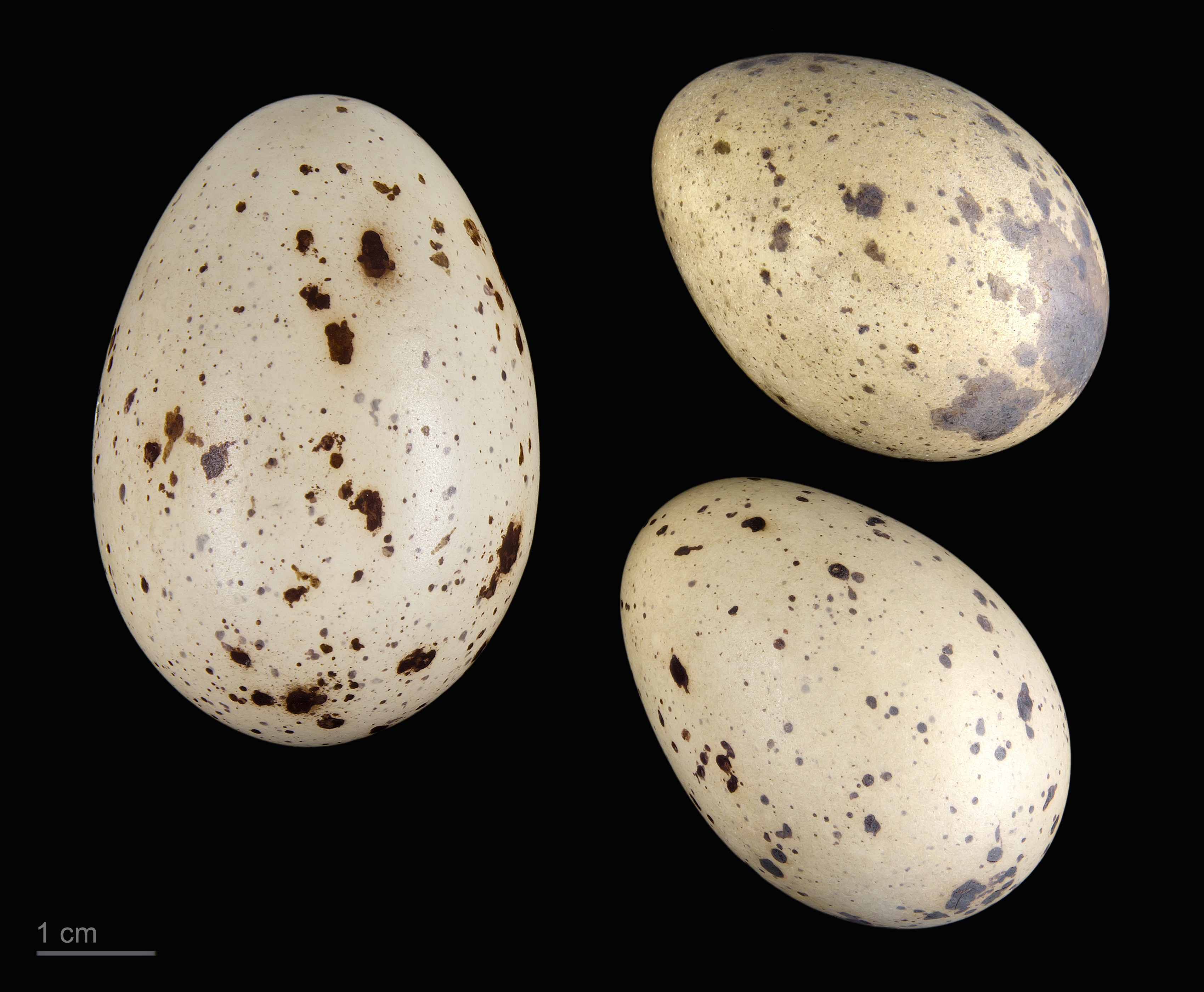 Eggs of common moorhen Three specimens of the same spawn ; collection of Jacques Perrin de Brichambaut.